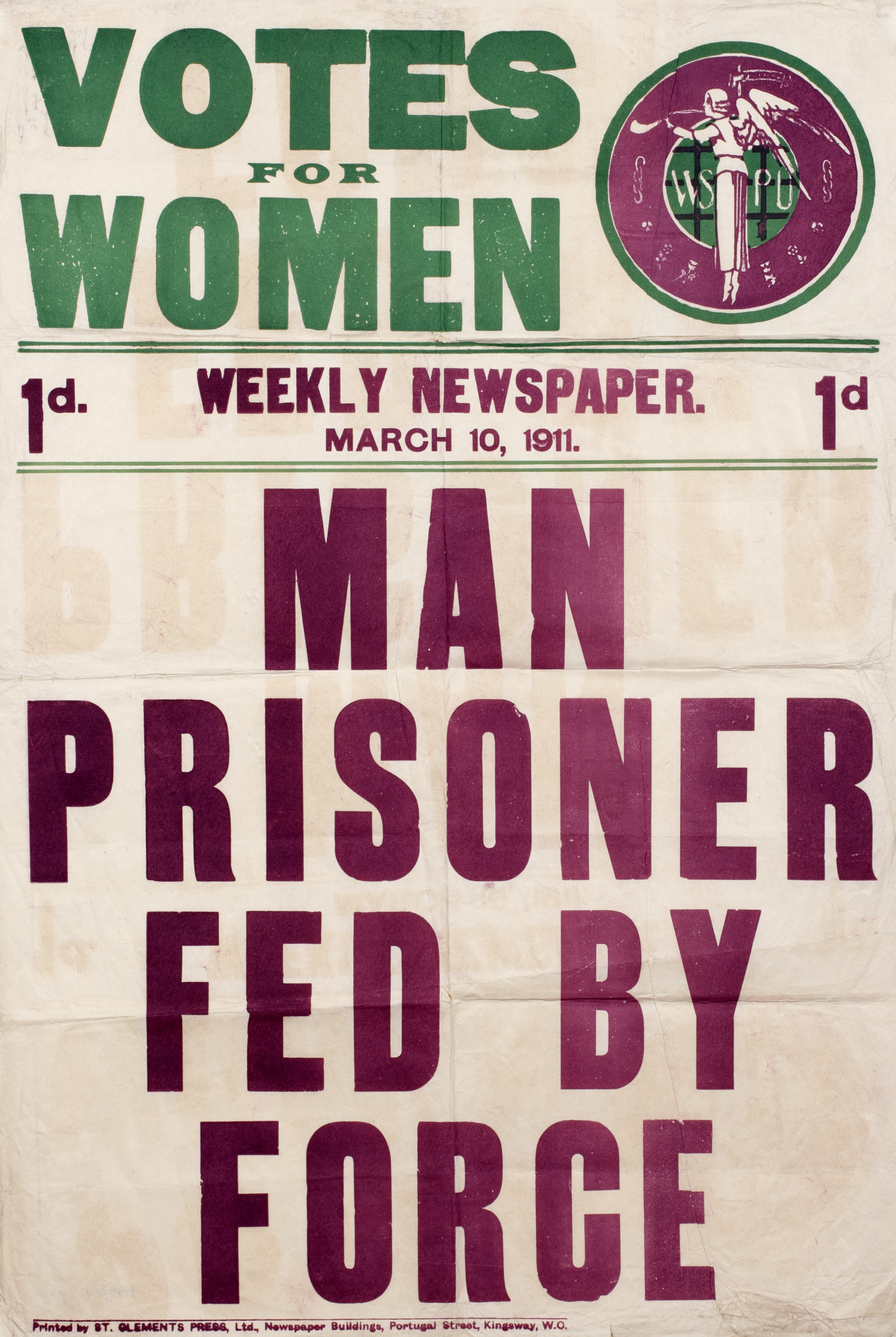 7HFD/A/5/09Poster, printed, paper, advert for weekly newspaper, cream background, green and purple inscription: 'Votes for Women Weekly Newspaper Mar 10 1911 1d Man Prisoner Fed by Force'. Inscription on reverse: 'Exhibited in Bow St Police Court, before Mr Henry Curtis Bennett, Thursday 9 Mar 1911; on a charge of throwing a stone at Mr Churchill's house. 1 month's forcible feeding'